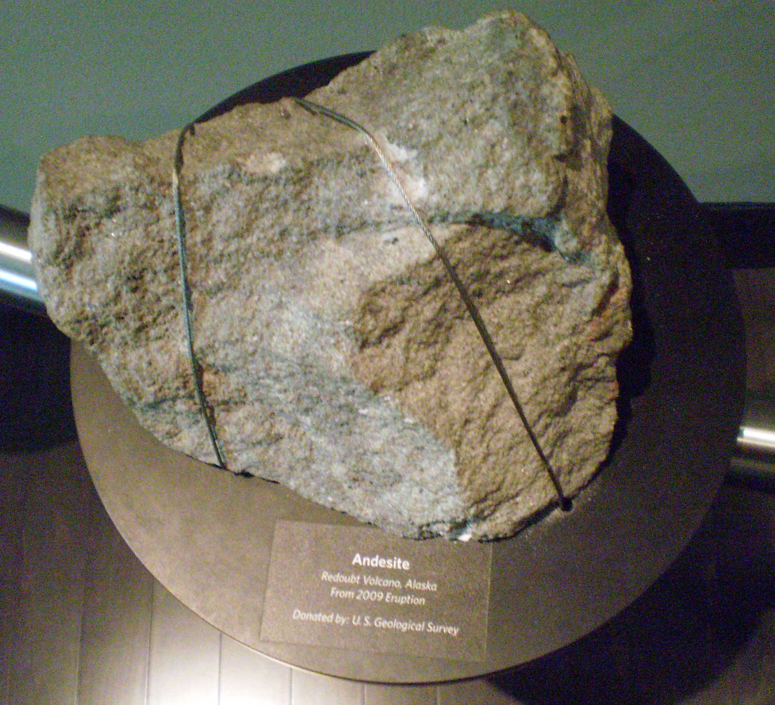 A chunk of Andesite thrown by the eruption of Mount Redoubt in 2009 and contributed by the U.S. Geological Survey is on display at the Anchorage Museum in late March 2011.